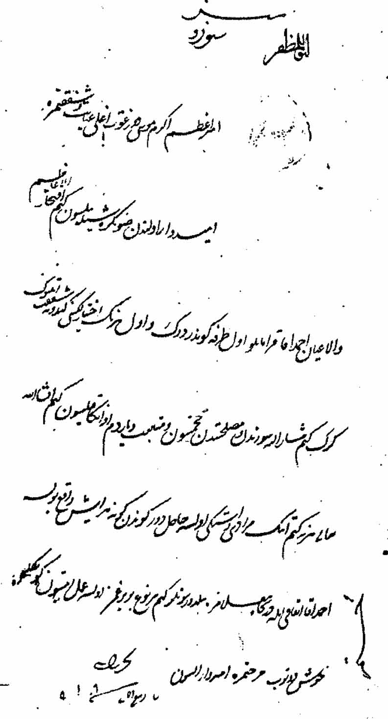 Letter of Shah Esma’il to Amir Musa Doghurt